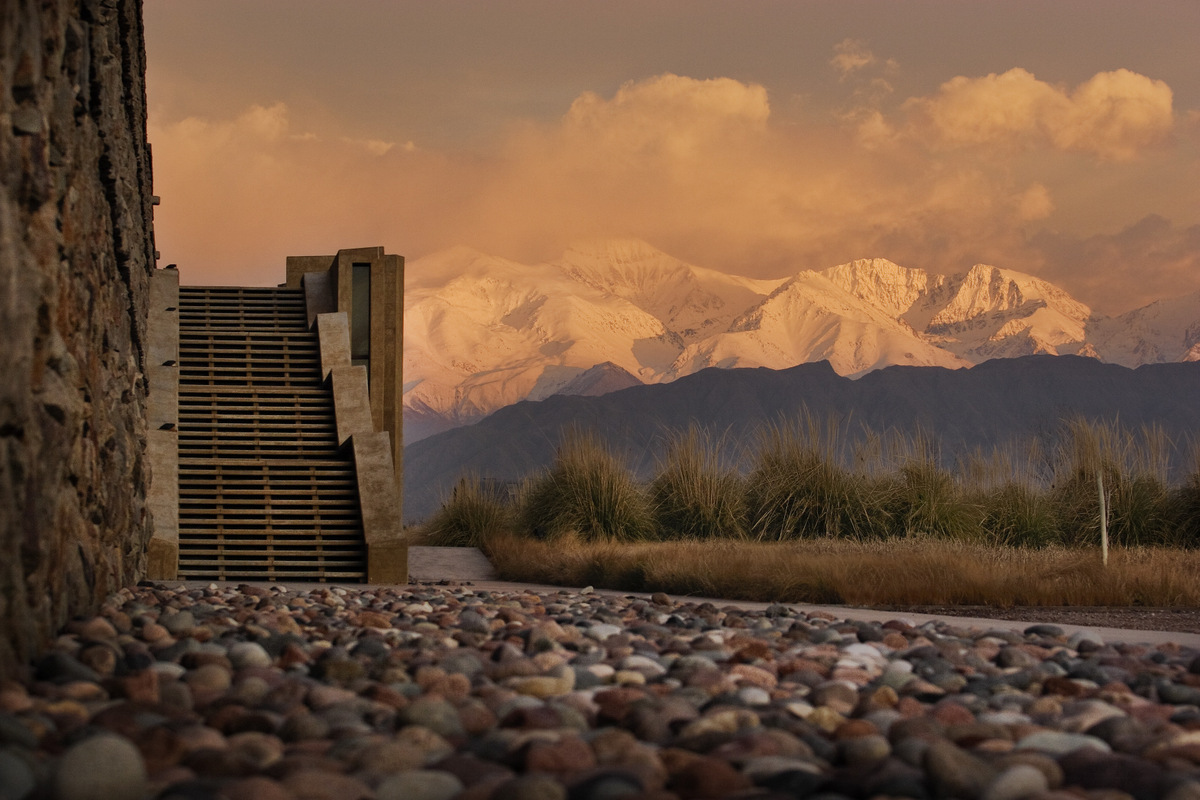 Winery in Luján de Cuyo, Mendoza, Argentina